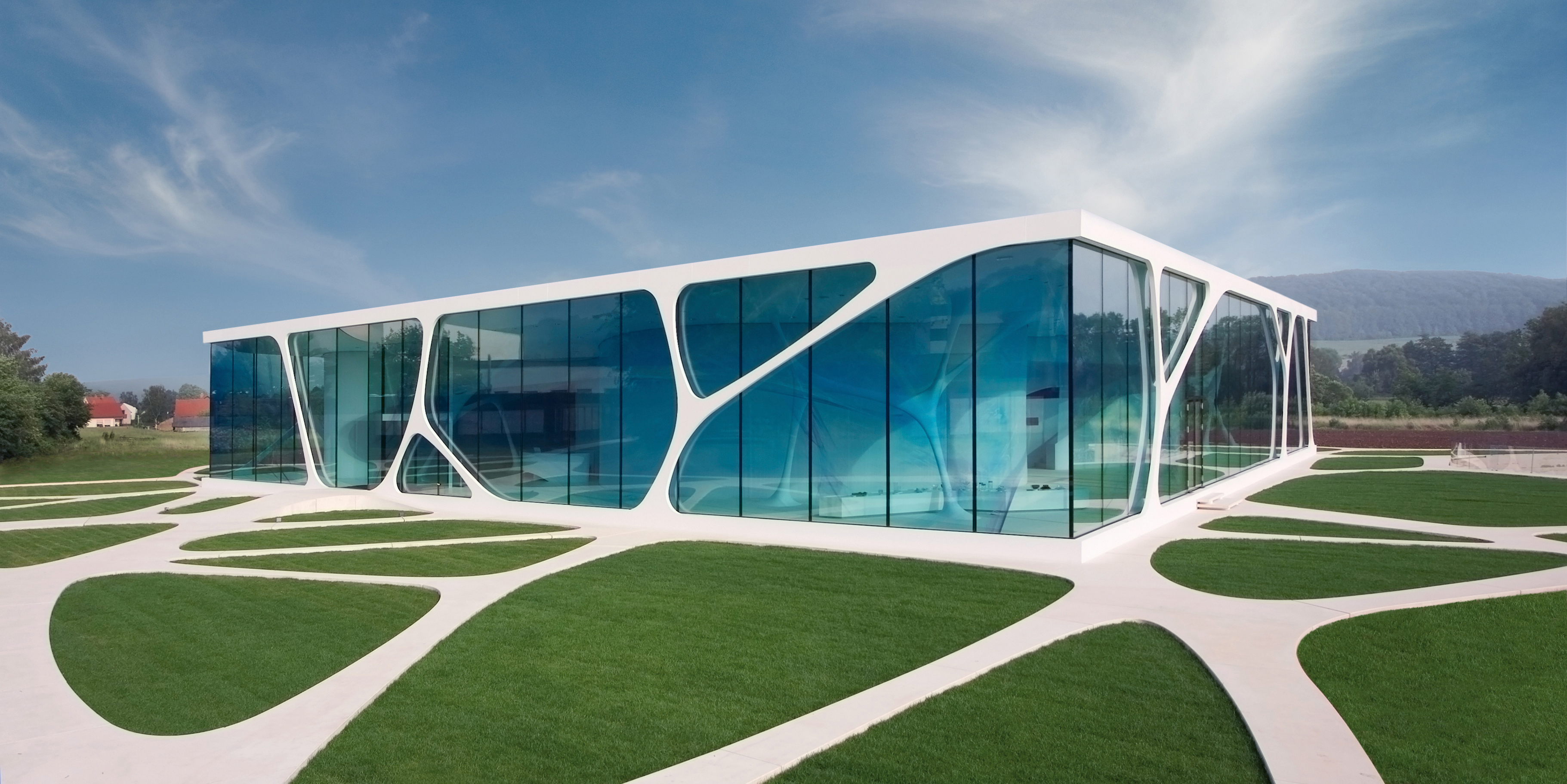 Distinctive corporate architecture for the brand Leonardo. The integrative design concept combines architecture, interior design, graphic design and landscape architecture into an aesthetic entity.